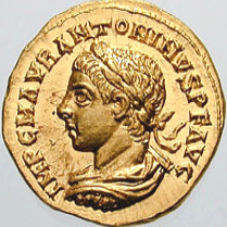 This is a Roman aureus coin, obverse only, with a portrait of Roman emperor Elagabalus, or Marcus Aurelius Antoninus Augustus.